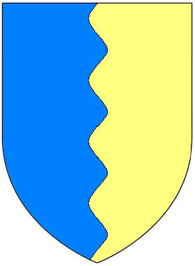 Arms of Poer (or Power) family of Hayes, East Budleigh (15th.c.), later quartered by Duke family of Otterton. Per pale wavy azure and or. (Source: Heralds' Visitation of Devon, 1620)